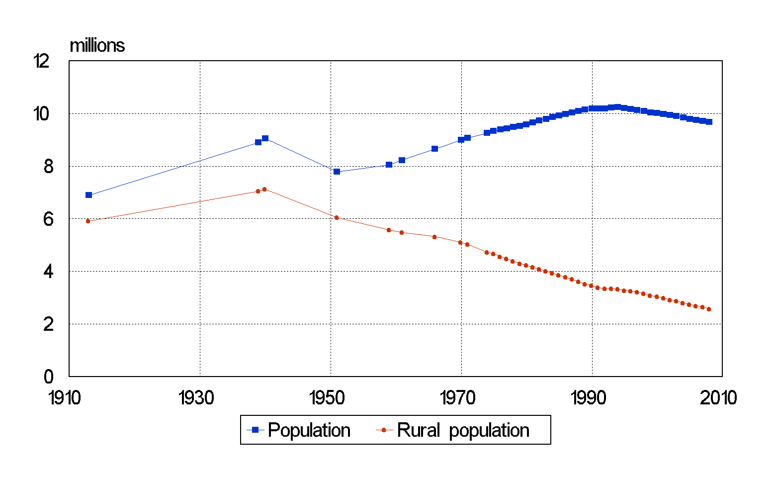 Belarus' population and rural population (1913-2008).